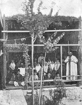 Bukharan Jews celebrating Sukkot, c. 1900. From the 1901-1906 Jewish Encyclopedia, now in the public domain.